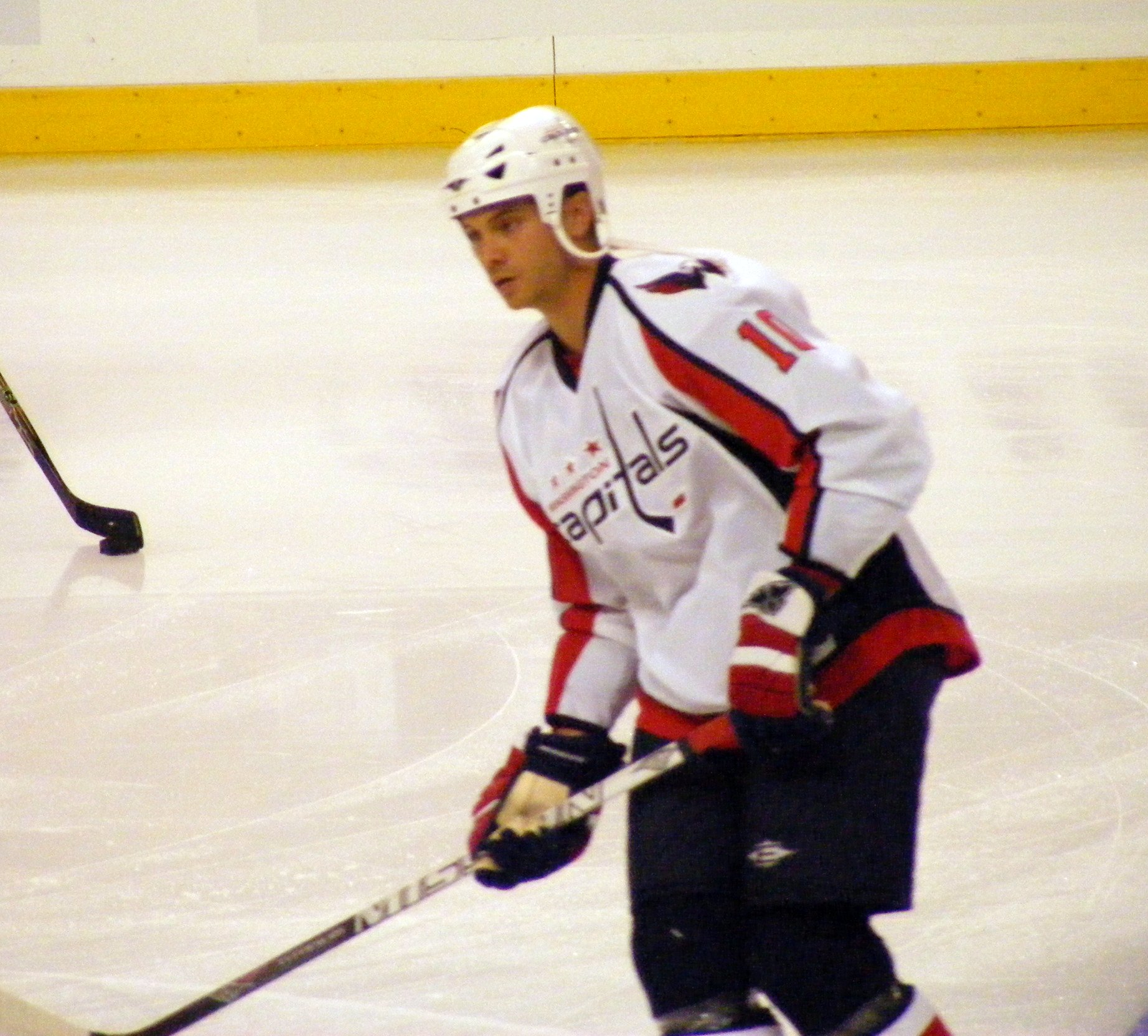 Matt Bradley, Washington Capitals vs Boston Bruins, September 27, 2008